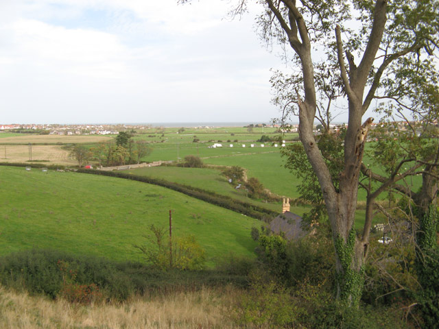 Fields, Afon Ganol The road to Bryn Pydew climbs steeply away from Cystennin Road and the low-lying fields by the Afon Ganol which can be seen winding towards the bridge for Dinarth Hall. Ironically the Afon Ganol now flows to Glan Conwy SH8076, the exact reverse of the flow of the Afon Conwy which came through the Mochdre gap in late-glacial times when its route to the sea was blocked by ice.